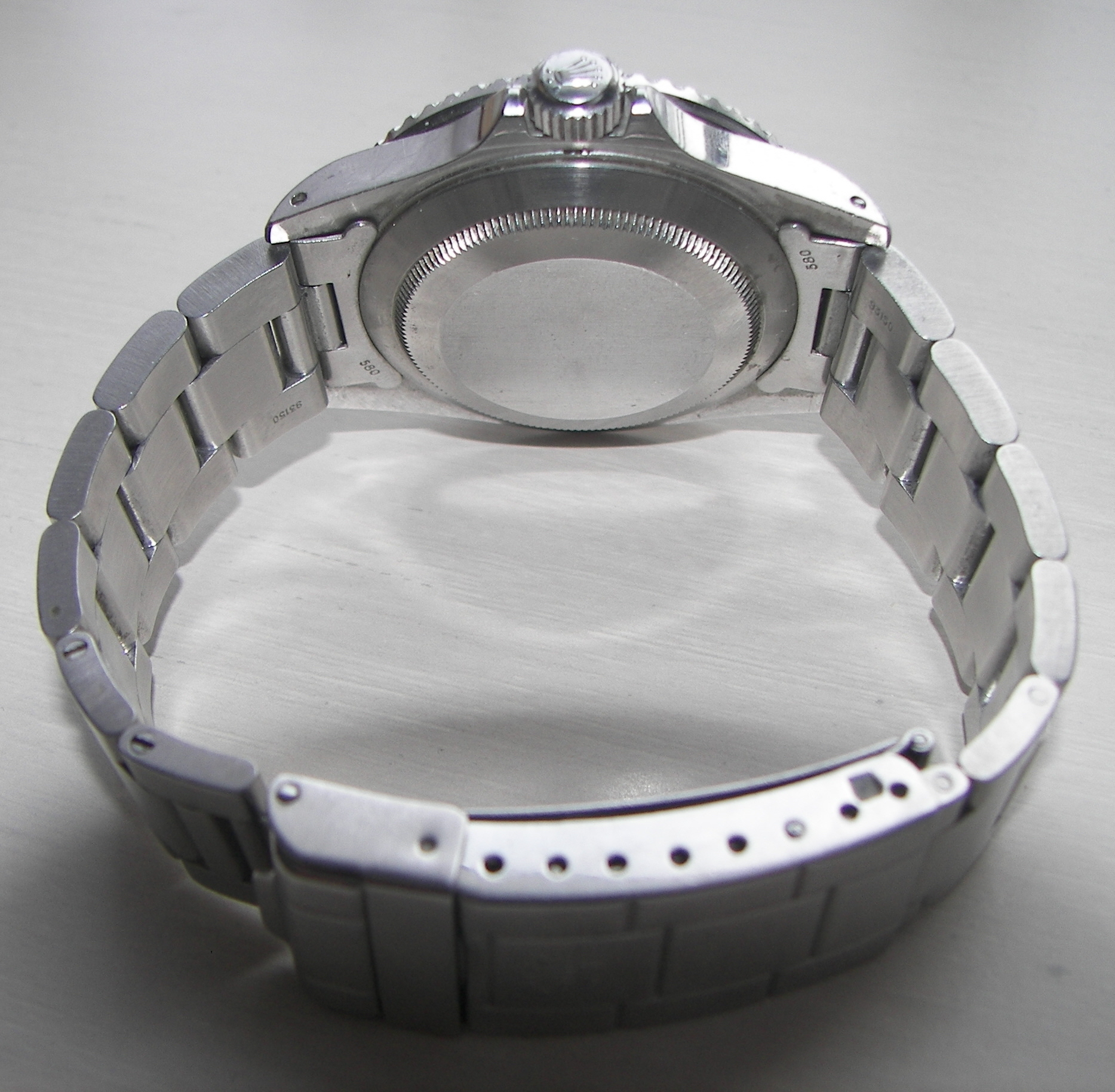 Rolex 6610 Submariner.The original Rolex green sticker has been removed from the backside of the watchcase.